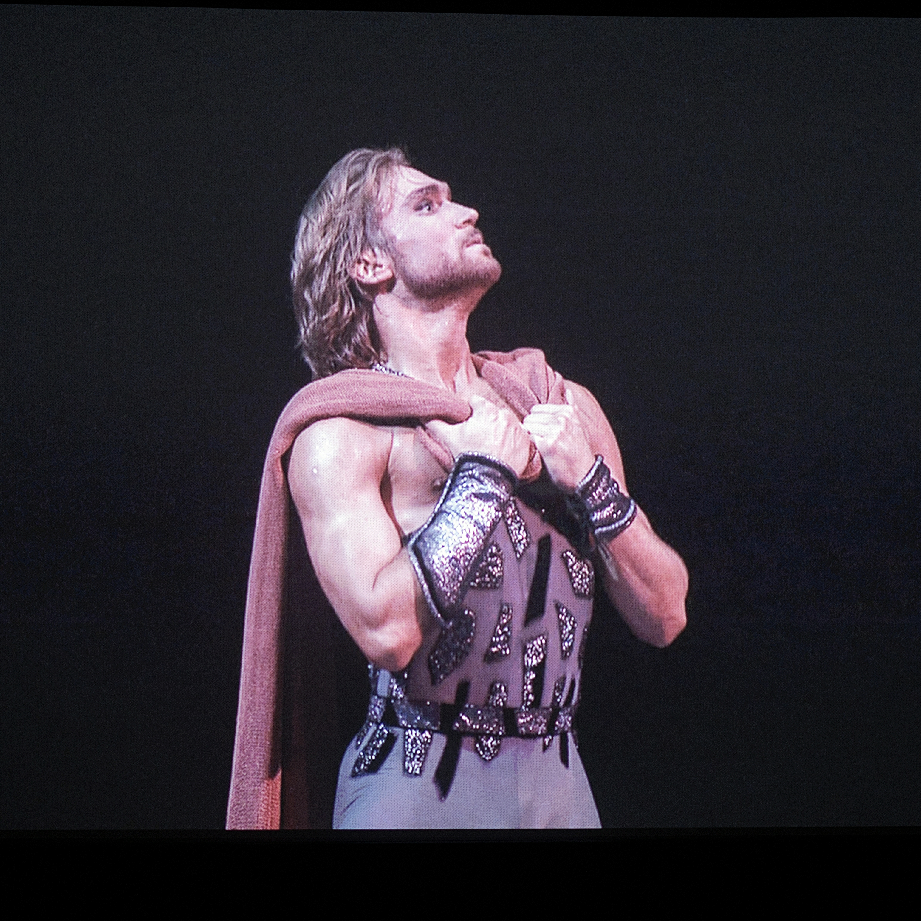 Spartacus at Bolshoi in Moskow October 2013